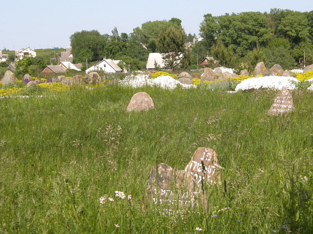 Jewish Cemetery of Hlybokaye, Belarus